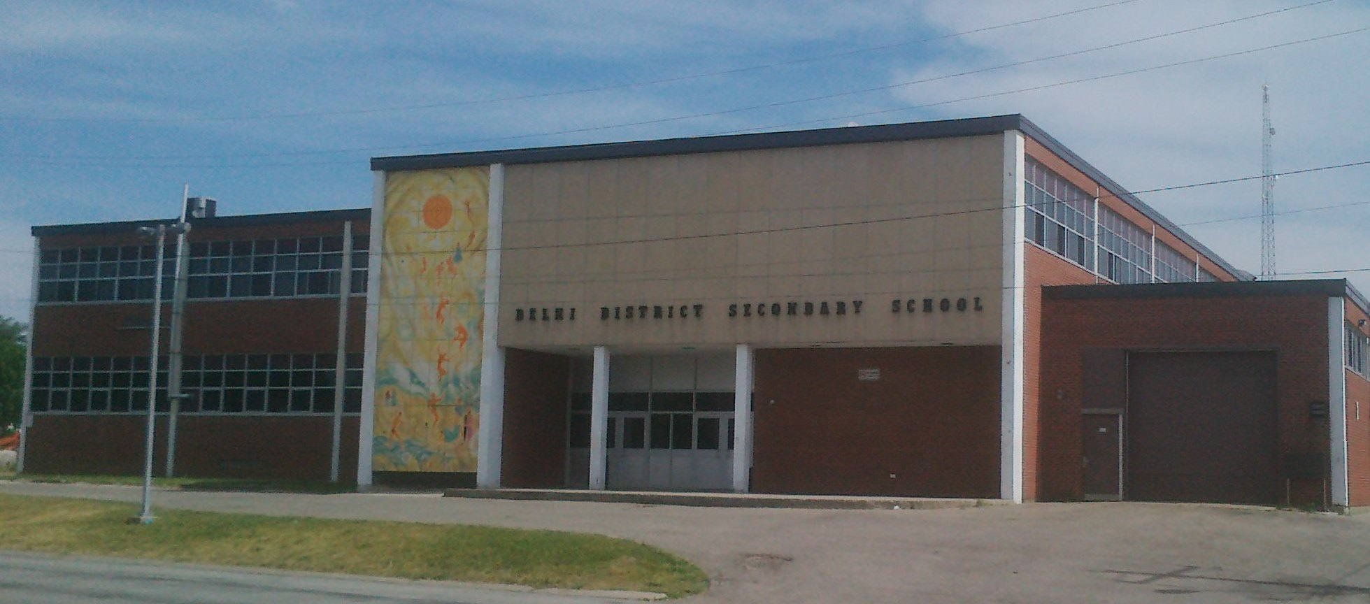 Delhi District Secondary School, Dehli, Ontario, Canada